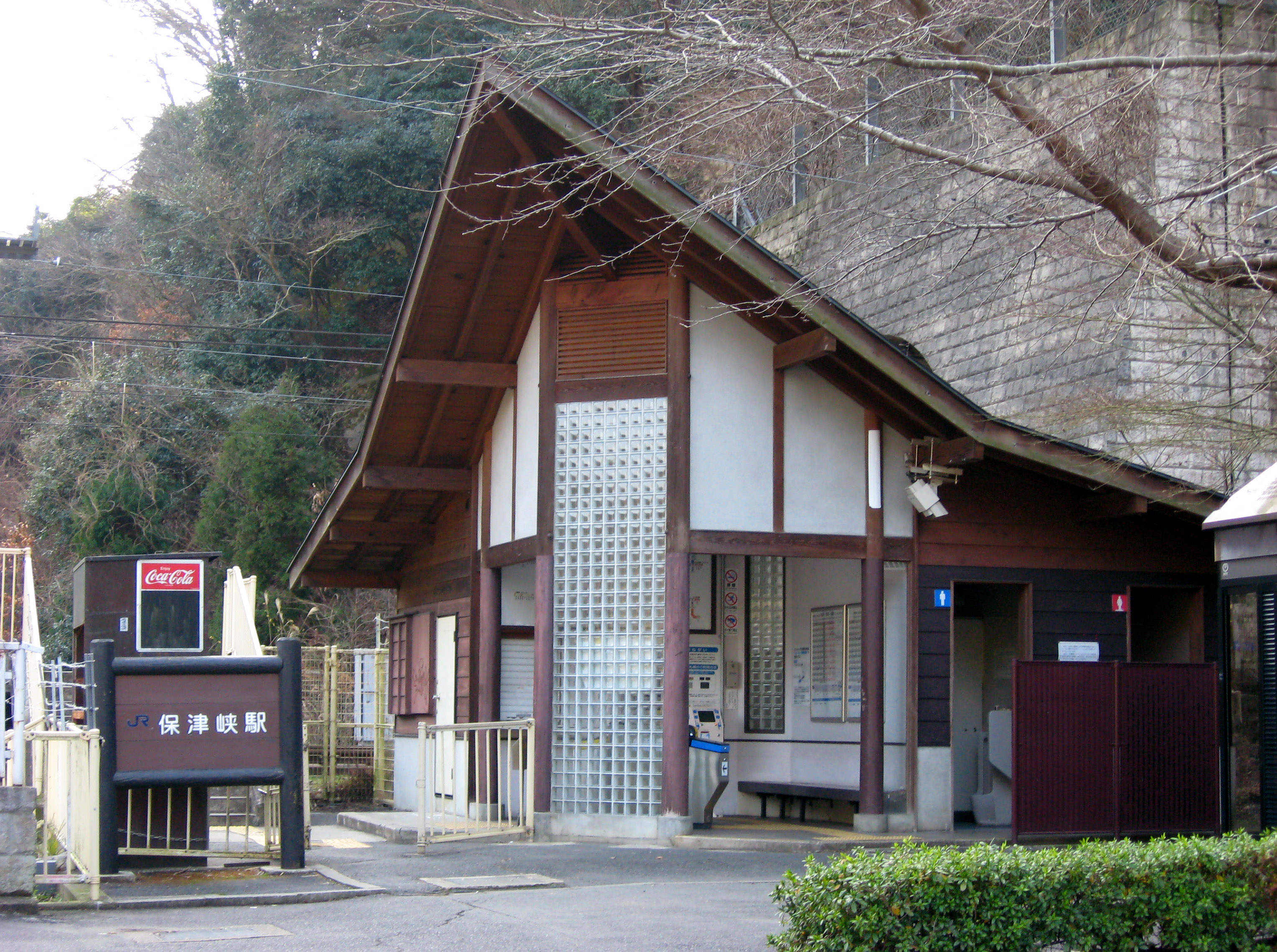 JR Hozukyo Station Front View